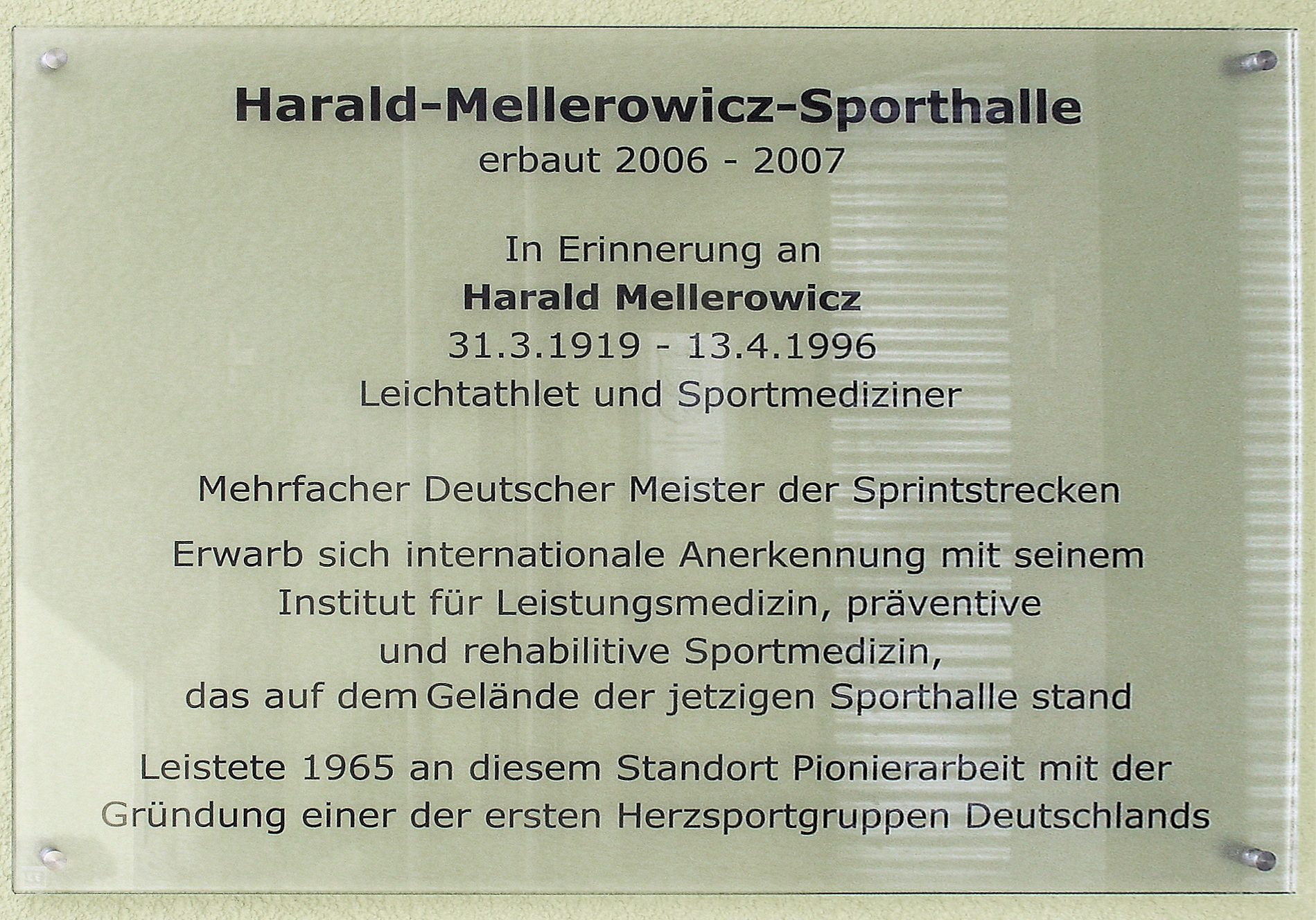 Memorial plaque, Harald Mellerowicz, Forckenbeckstraße 20, Berlin-Schmargendorf, Germany